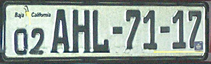 European-styled Mexican license plate from the state of Baja California.